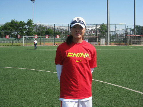 China softball player Luo Lin during practice